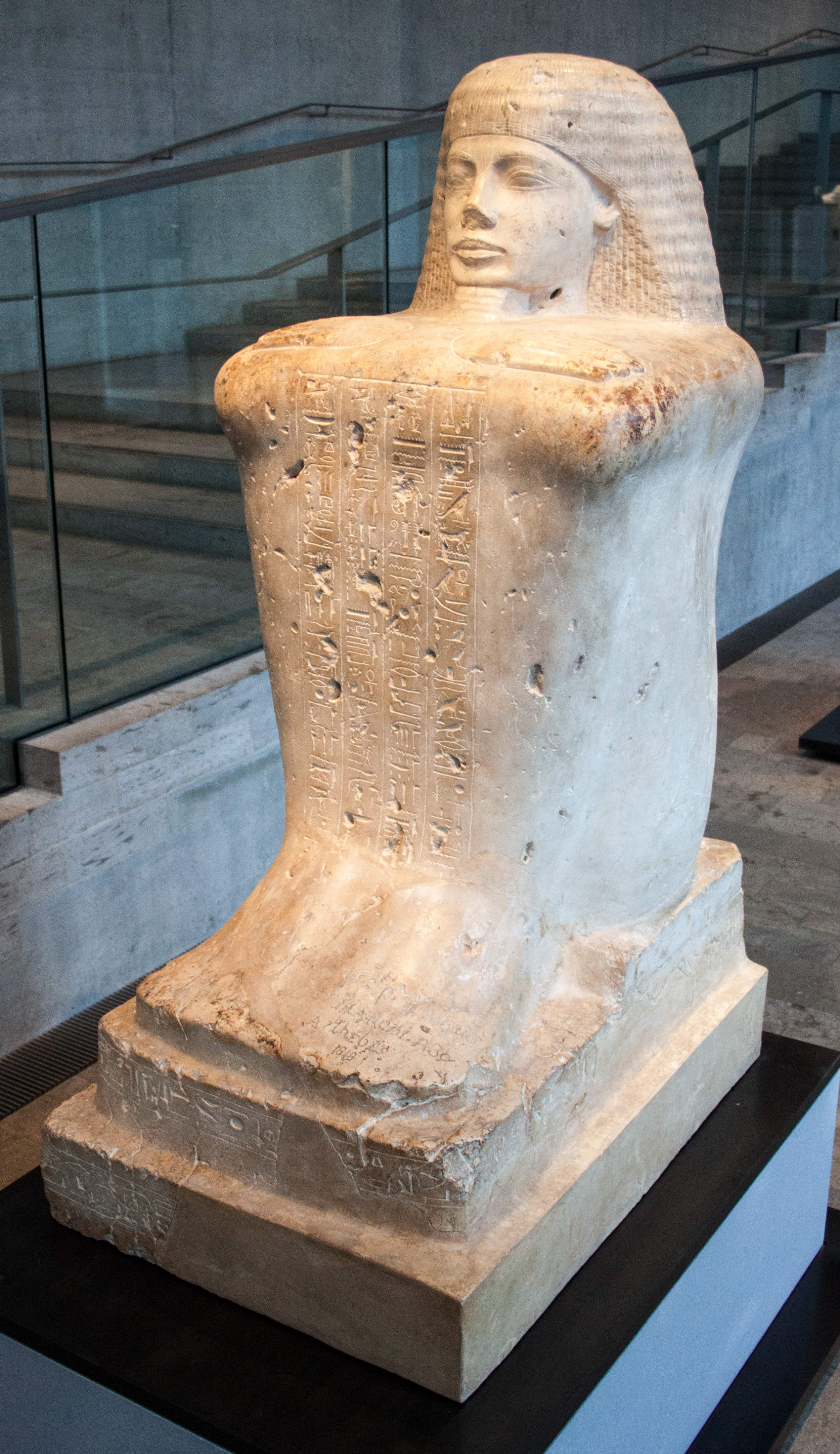 Block statue of the High Priest of Amun Bakenkhonsu. Limestone from Karnak, Thebes, 18th dynasty (circa 1320 BCE) reused in 19th dynasty (circa 1220 BCE), New Kingdom. Staatliches Museum Ägyptischer Kunst, in Munich.